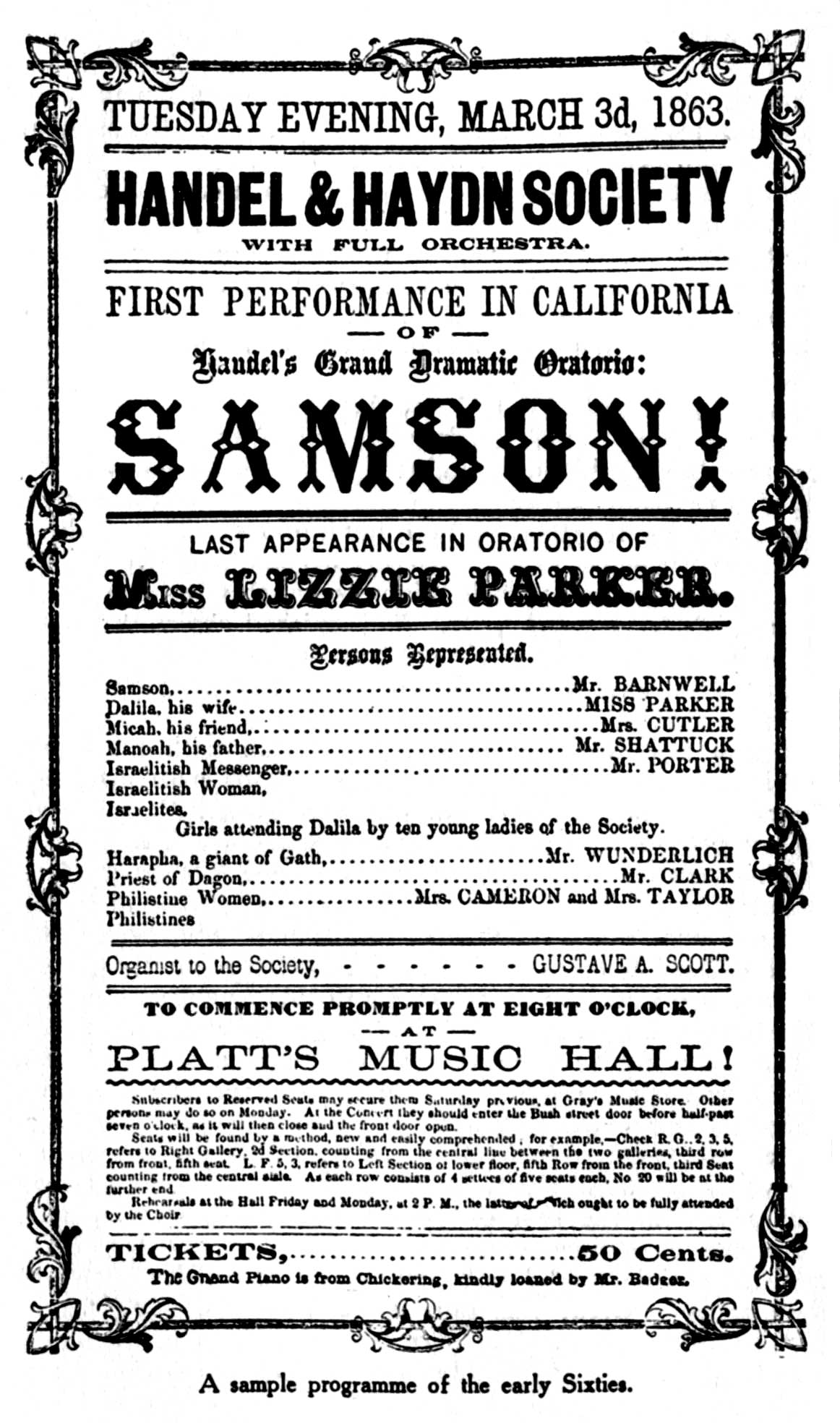 Advertisement for classical music performance (Handlel and Haydn society), California, 1863